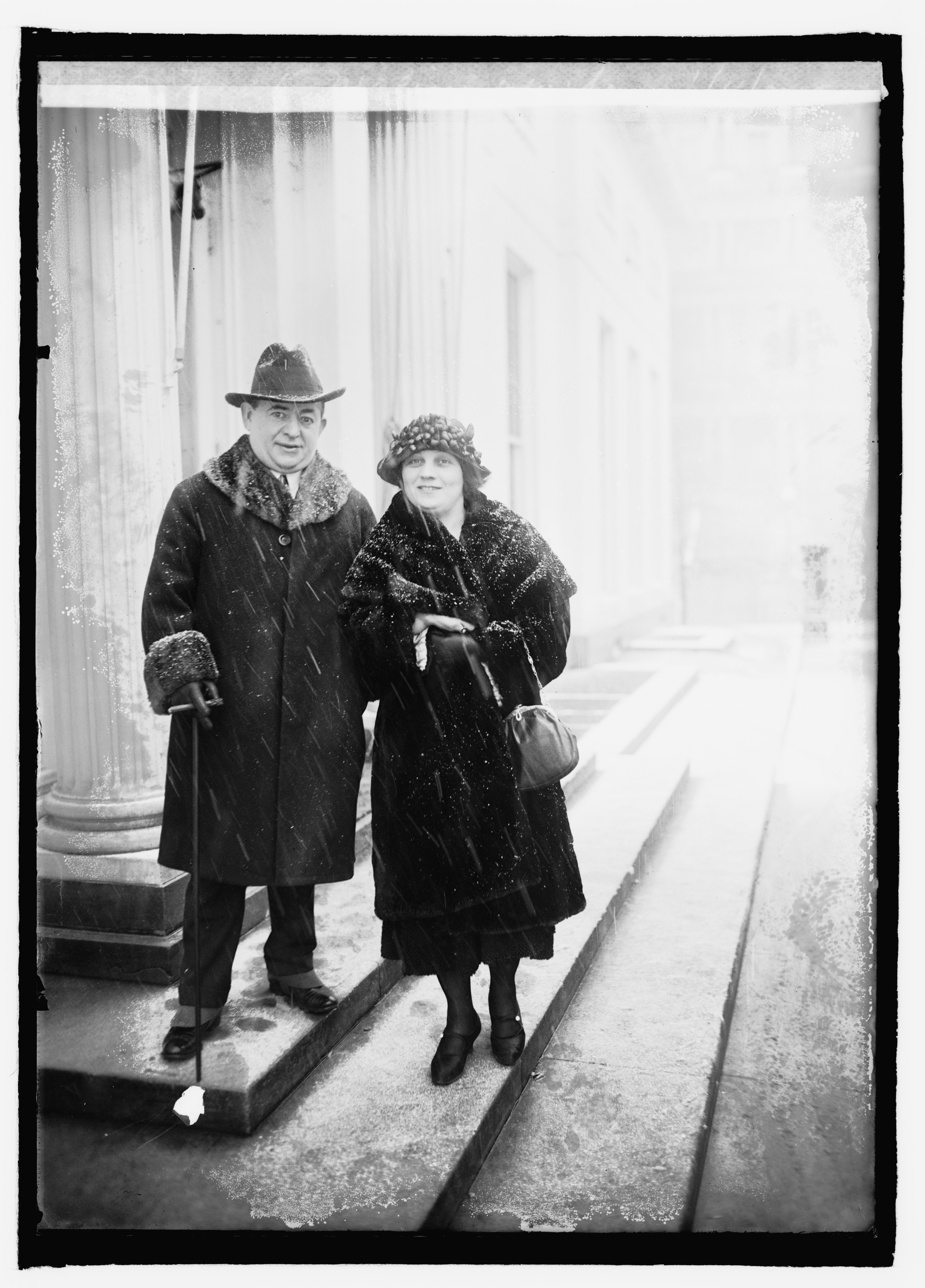 Title: Max K. Malini & wife, 1/11/22 Abstract/medium: 1 negative : glass ; 5 x 7 in. or smaller